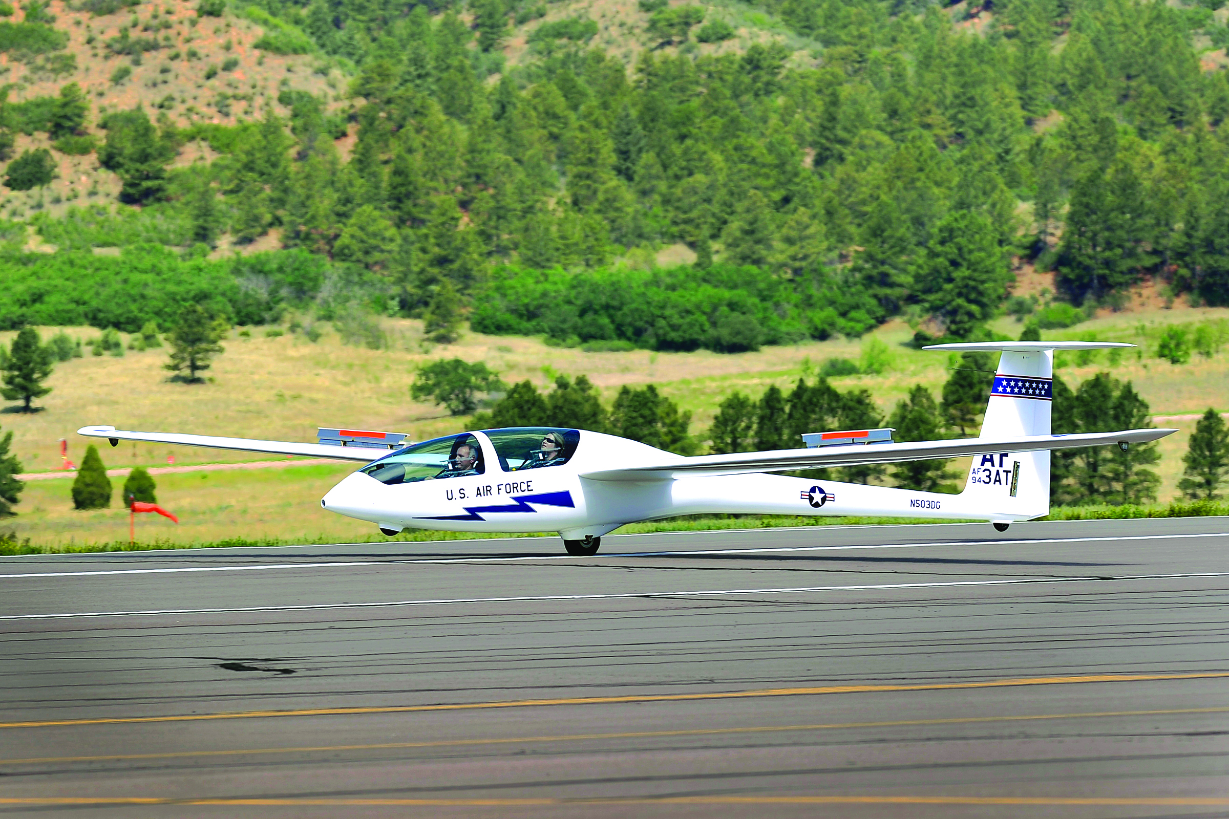 The U.S. Air Force Academy’s first TG-16A glider arrived at the Academy July 8. The new fleet of training and aerobatic gliders is valued at $4.8 million and includes five new aerobatic gliders and 14 basic trainers. (U.S. Air Force Photo/Raymond McCoy)